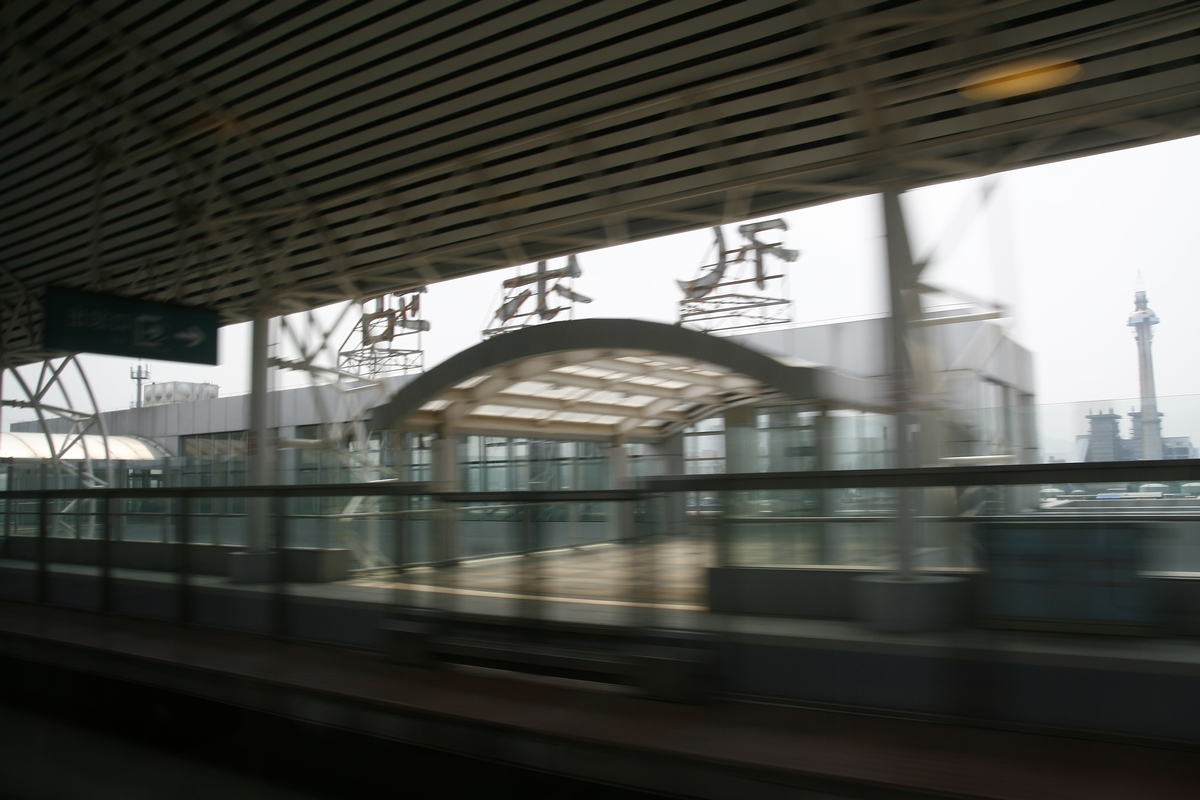 The train passing through Lile Railway Station